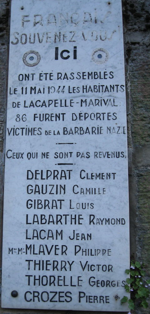 Commemorative plaque of the dragnet dated 11 mai 1944 commited by units of 2nd SS Panzer Division Das Reich in Lacapelle-Marival. This plaque is located on the castle wall in Lot department in France. Translation of the text in english : French people please remember her were gathered on 11 mai 1944 the inhabitants of Lacapelle-Marival 86 were sent to a concentration camp victims of nazi barbarity --- Those of them never came back : DELPRAT Clément GAUZIN Camille GIBRAT Louis LABARTHE Raymond LACAM Jean Mme Mr MLAVER Philippe THIERRY Victor THORELLE Georges CROZES Pierre